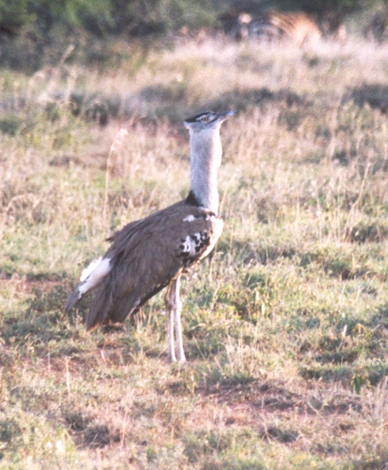 Kori Bustard Taken by Duncan Wright